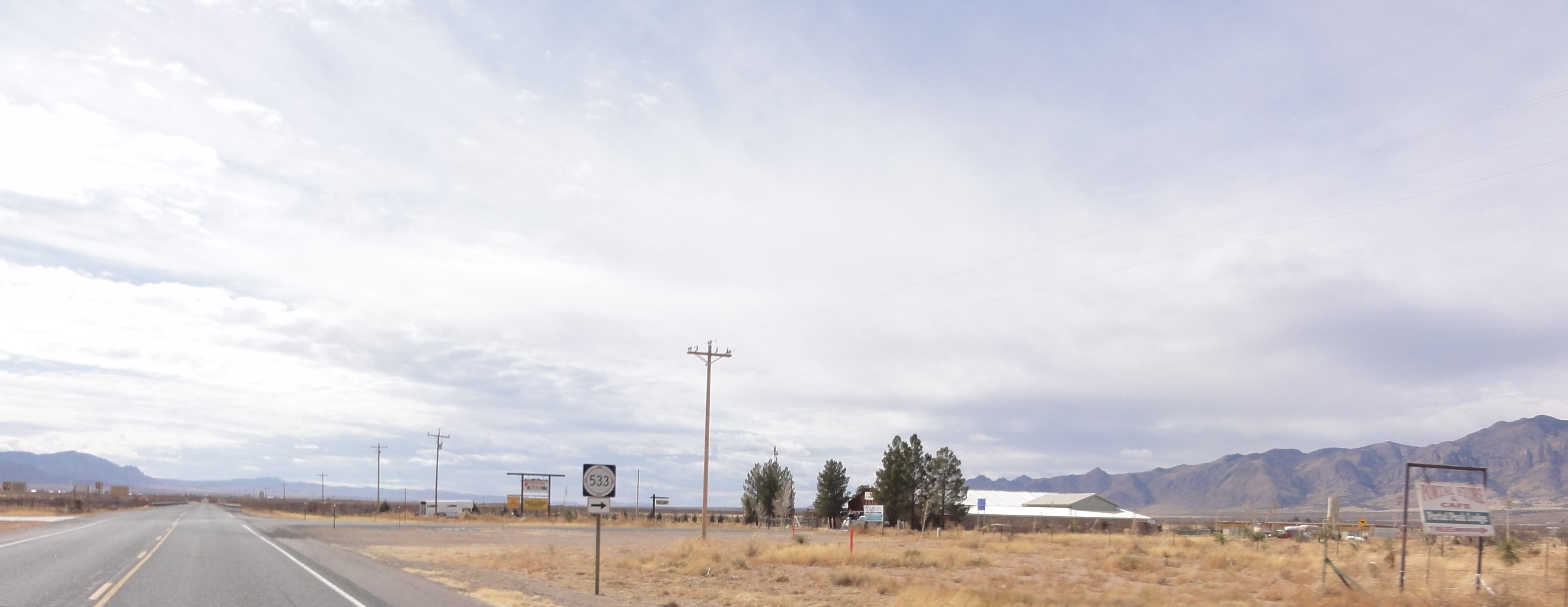 New Mexico State Road 80 at its junction with New Mexico State Road 533